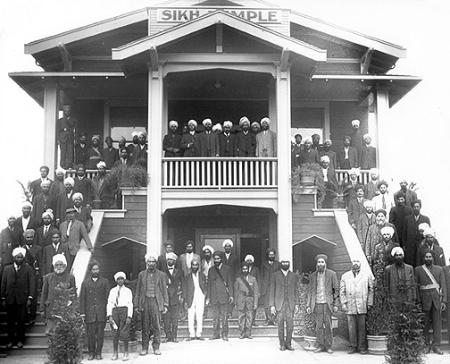 The original Sikh Temple on South Grant Street in Stockton. In 1929 a new gurdwara was built at the same location on the enlarged foundation of the old wooden building.